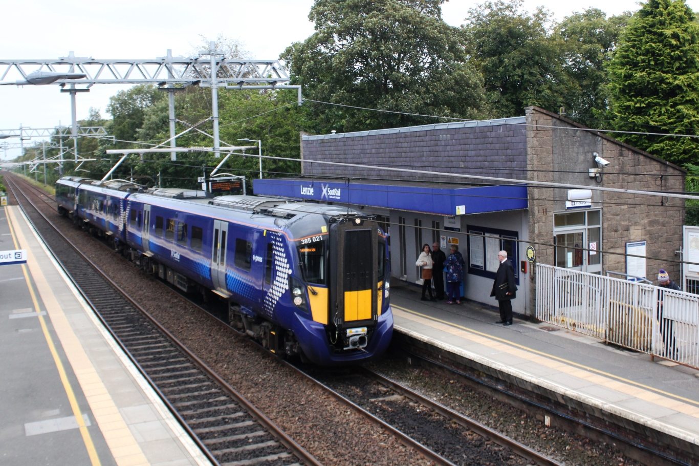 385021, a three-car service from Alloa to Glasgow Queen Street, calls at Lenzie.